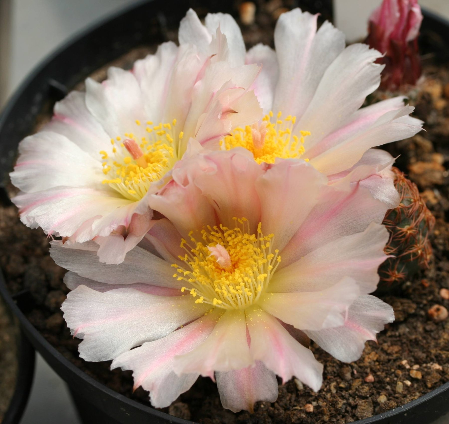 Maihueniopsis bonnieae Flower